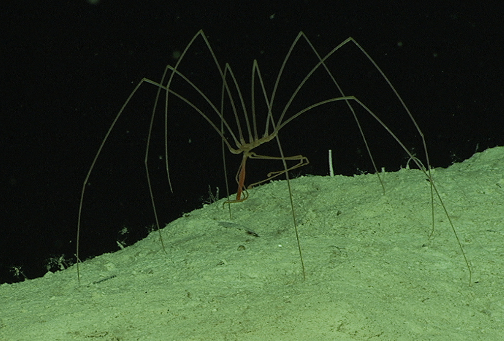 A sea spider (Pycnogonida) creeps along the top of ridge at 1,960 meters depth in the Northeast Providence Channel near Eleuthera Island. The two arm-like structures hanging down from the body behind the proboscis are “ovigers”, used for carrying eggs. Image courtesy of Scott C. France, Bahamas Deep-Sea Corals 2009 Exploration, NOAA-OER.